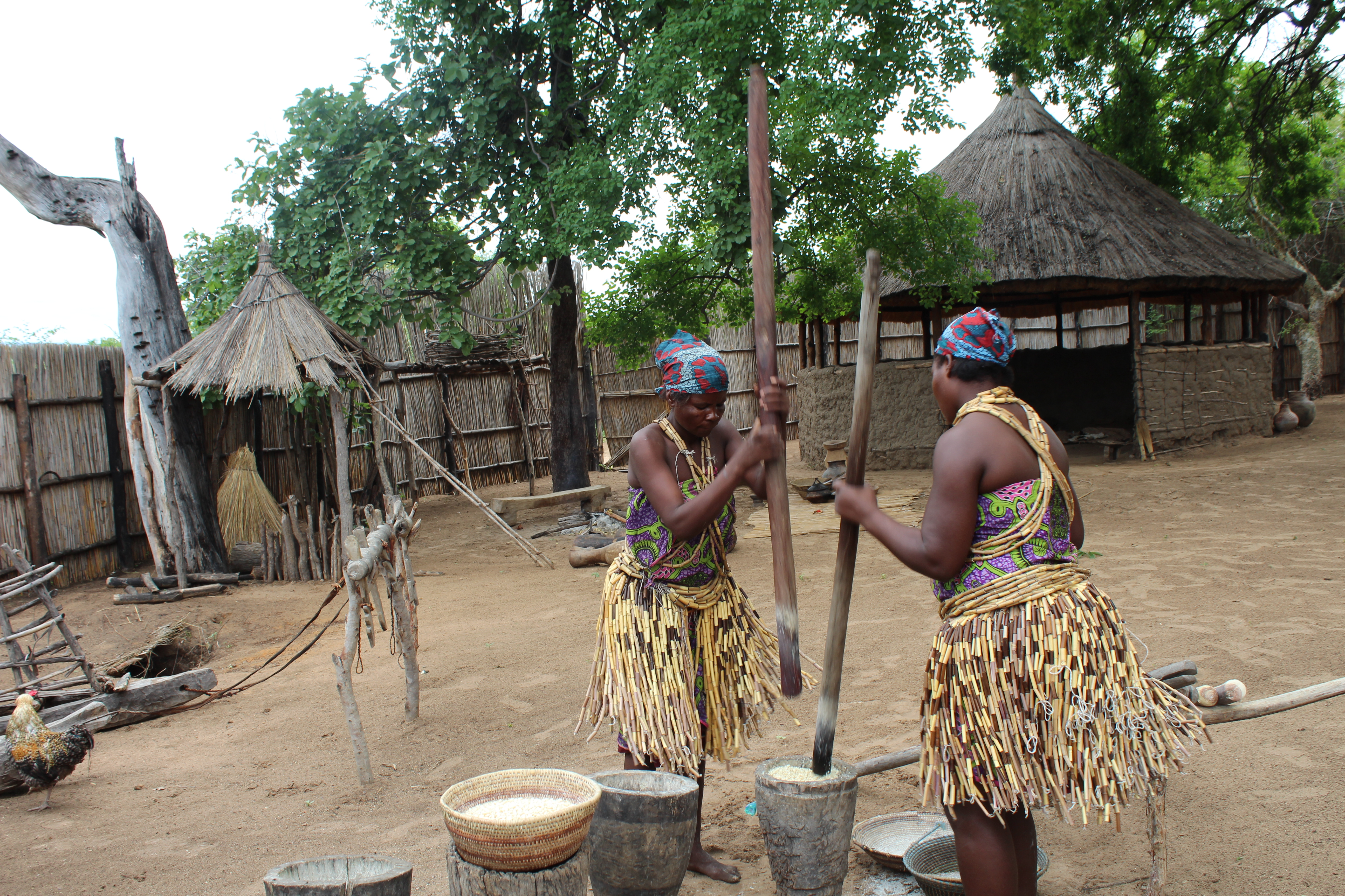 This picture was taken in the North-eastern part of Namibia. The ladies are wearing the Mbushu traditional attire (one of the Kavango tribes) and are pounding Maize. This is an image of Cultural Fashion or Adornment from Namibia